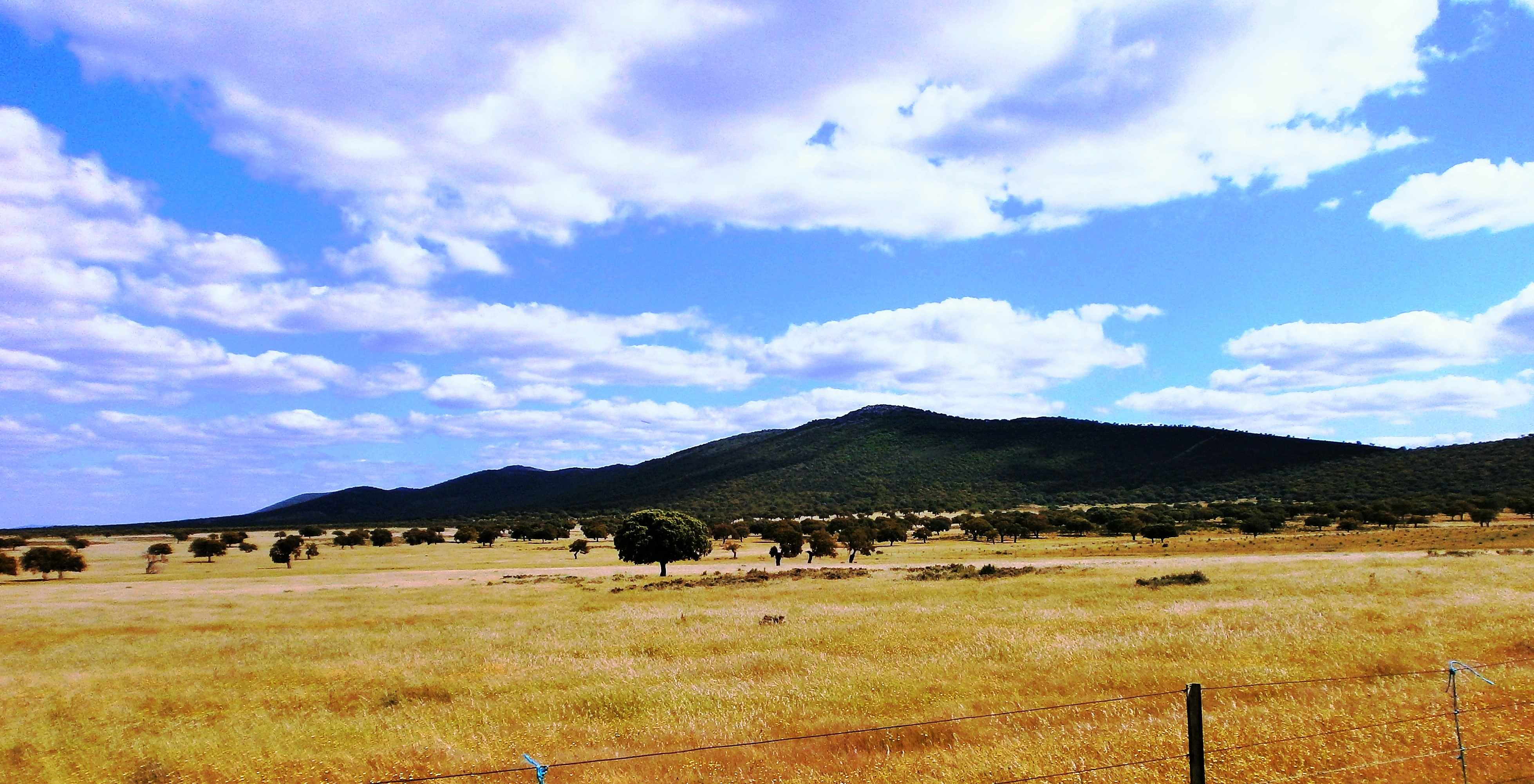 CC-Estrib-Sierra San Pedro